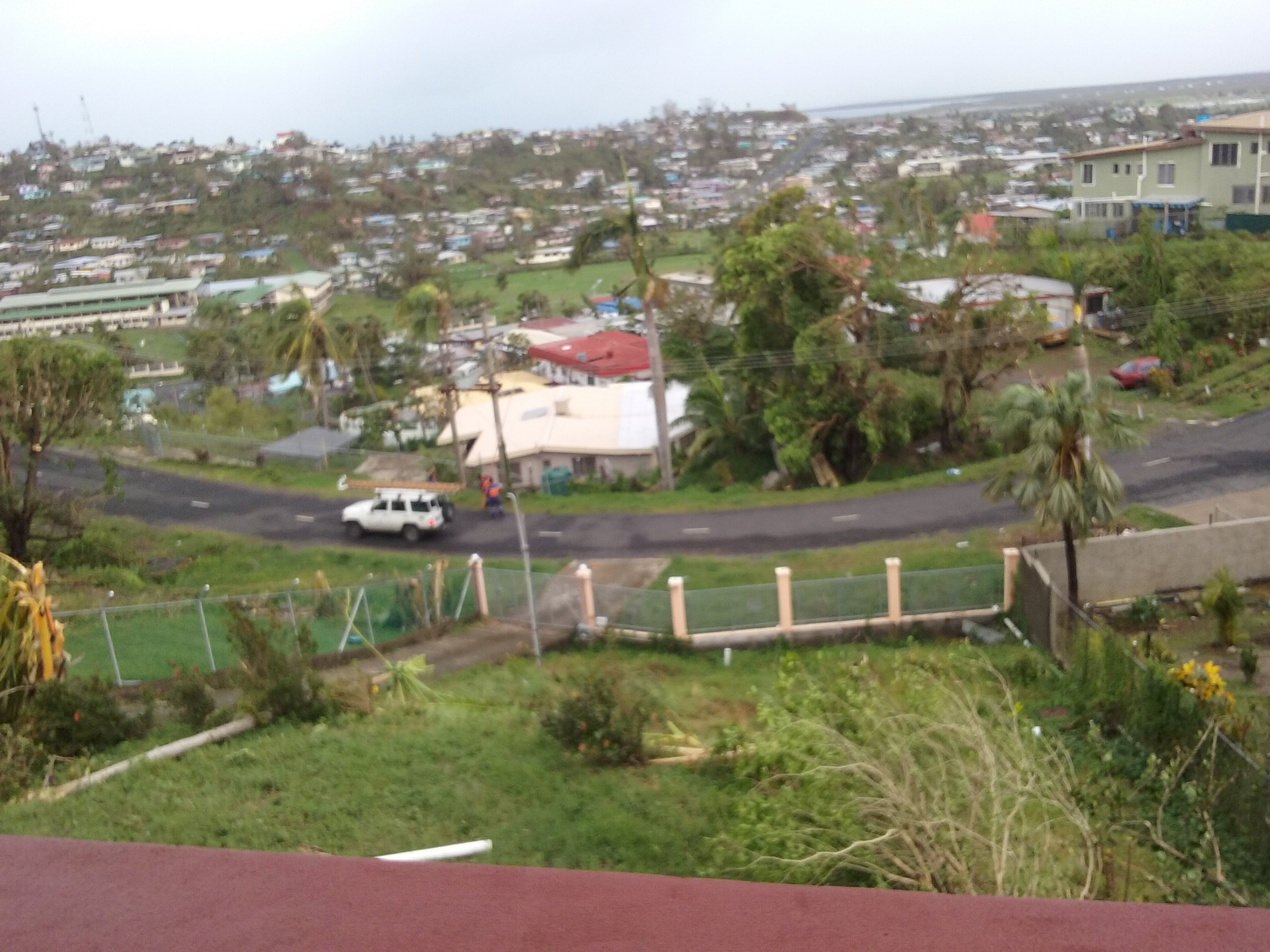 Winston damage in my compound ..Fiji Electricity Authority working on restoring power in Lautoka